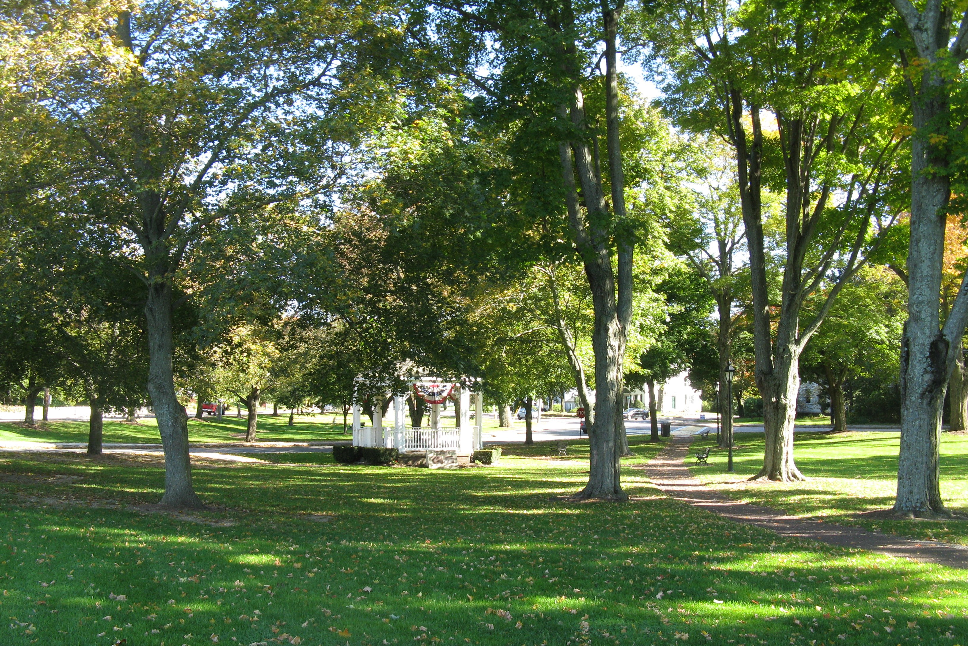 Wrentham Town Common, Wrentham Massachusetts